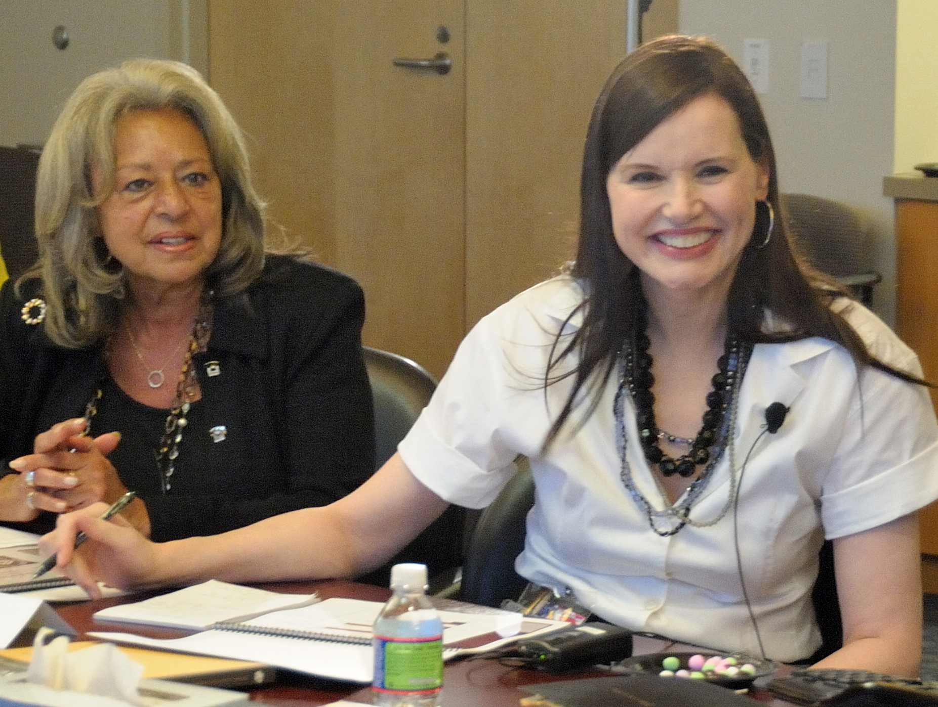 Dr Vivian Pinn, Director of the NIH Office of Research on Women's Health, with Geena Davis, at her presentation on gender portrayals and health, at the National Institutes of Health (NIH), Bethesda MD, U.S.A.